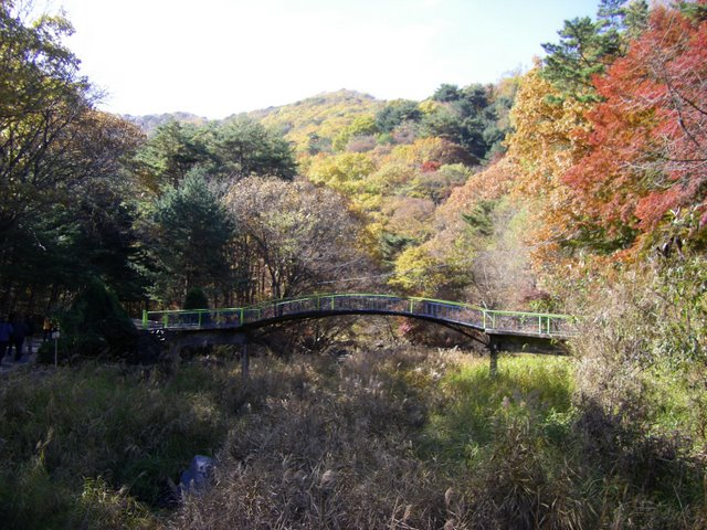 The mountains of Kaesong Province - in southern North Korea.